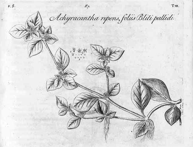 Plate showing Alternanthera pungens ('Achyracantha repens foliis Bliti pallidi') - Dillenius, J.J., Hortus Elthamensis, vol. 1: p. 8A, t. 7, fig. 7 (1732)